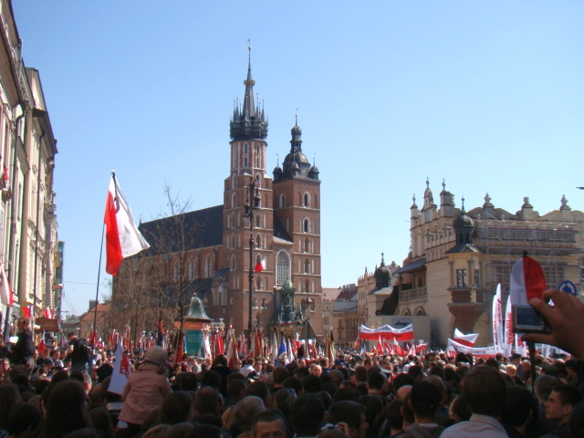 President Lech Kaczyński's funeral, Cracow